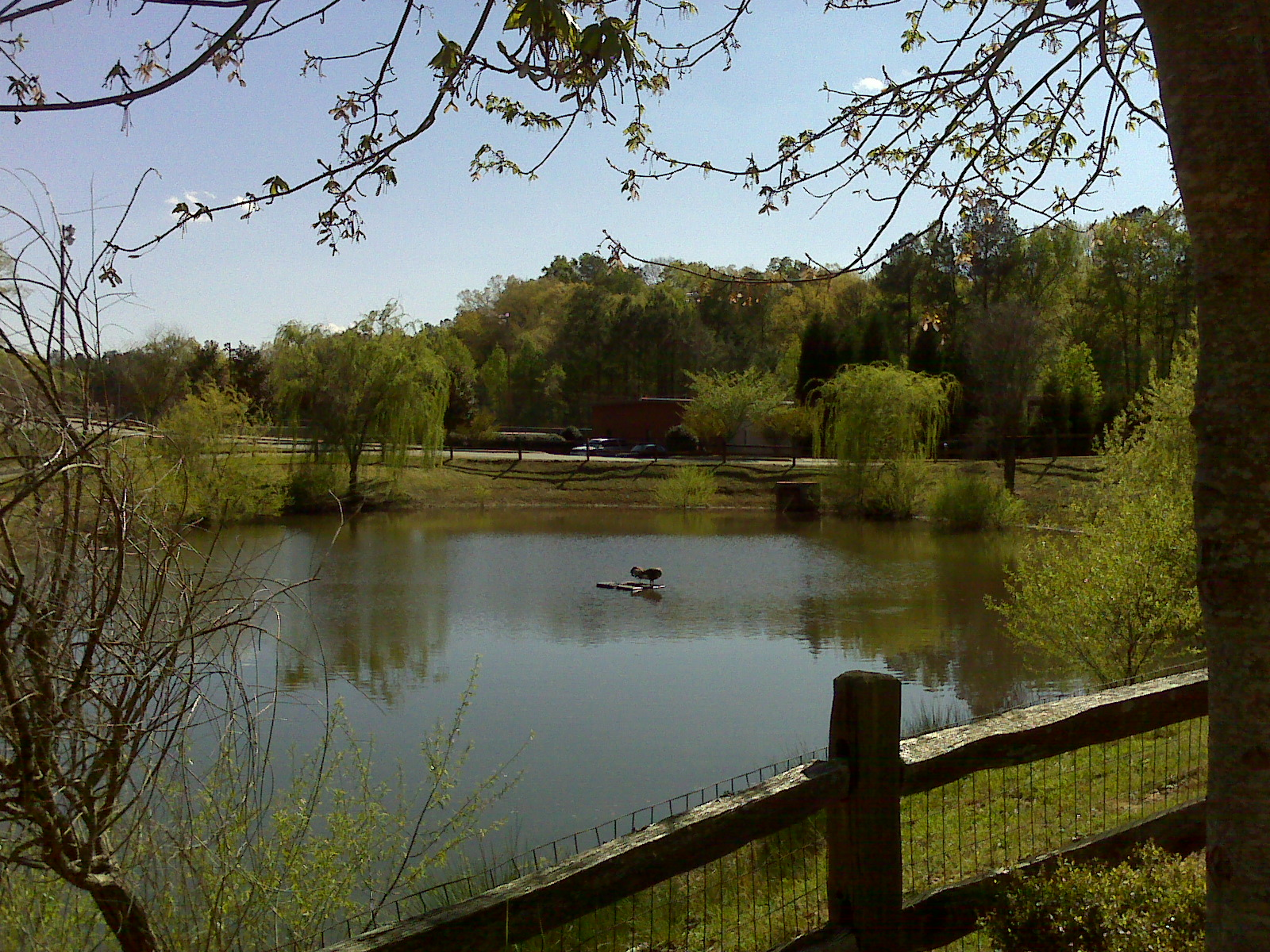 Picture taken at East Roswell Park in Roswell, Georgia, United States